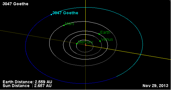 This diagram illustrates the orbit of the Main-Belt Asteroid 3047 Goethe.